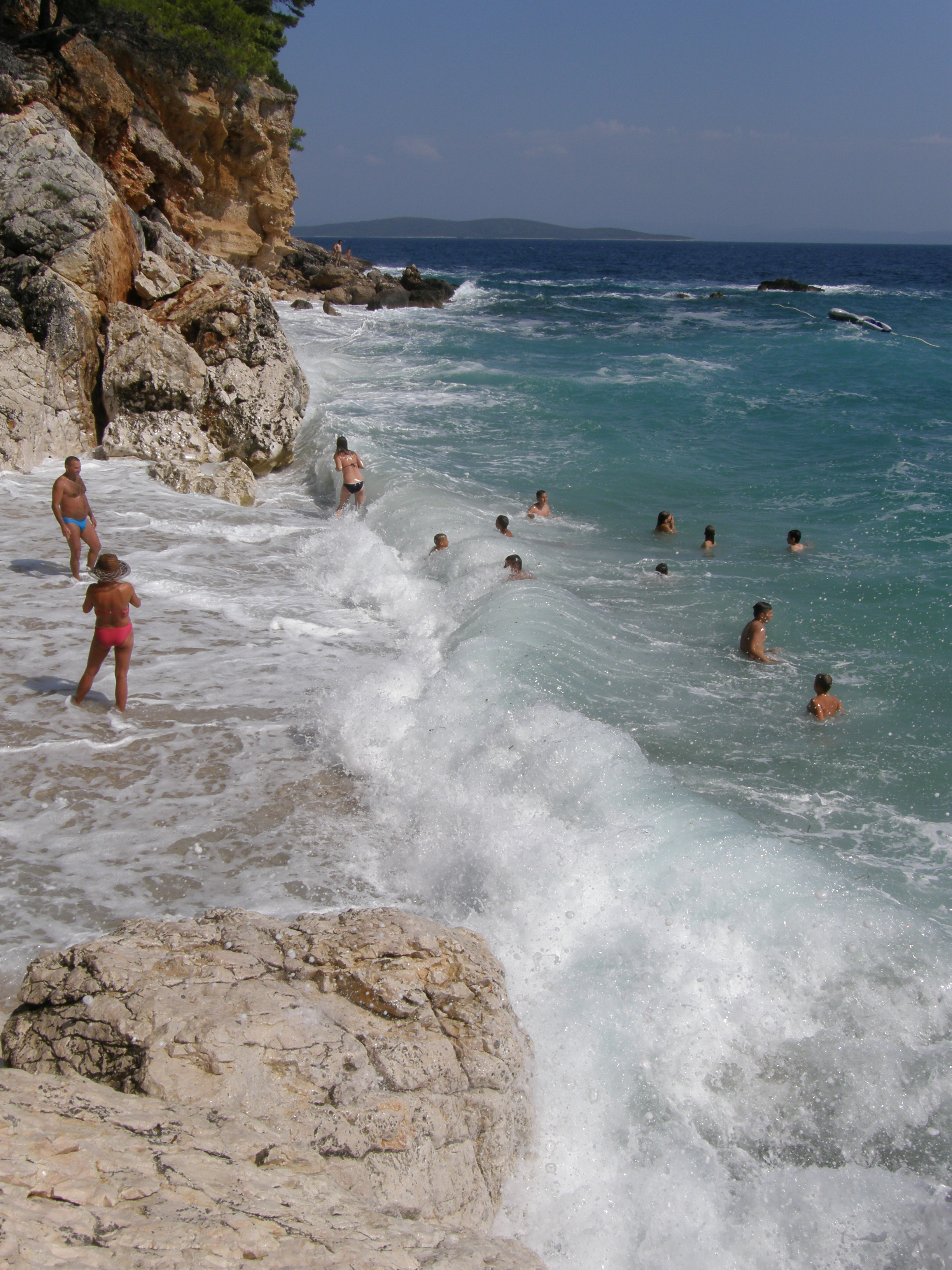 Jagodna beach on the island of Hvar.